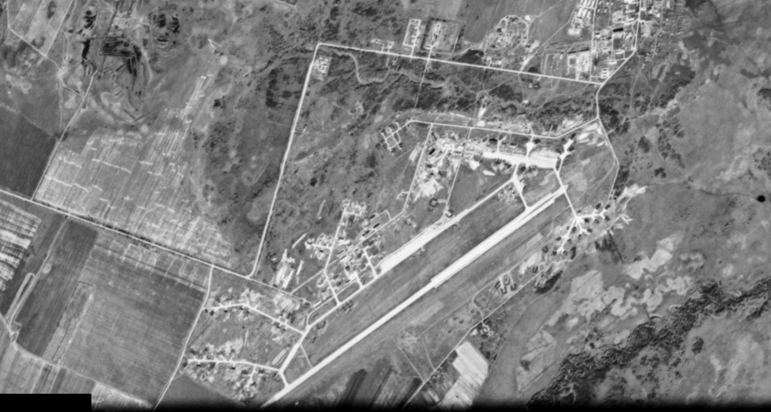 Blagodatnoye airfield, KH-4B CORONA satellite image